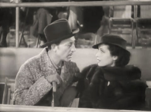 Warren William & June Travis in Times Square Playboy - trailer (cropped screenshot)